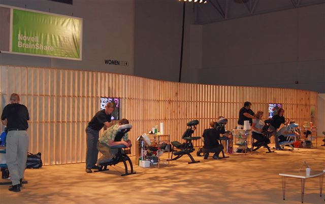 An area of the Salt Palace set aside for chair massages during the Novell BrainShare 2007 conference.